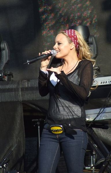 Yael Bar-Zohar, on stage